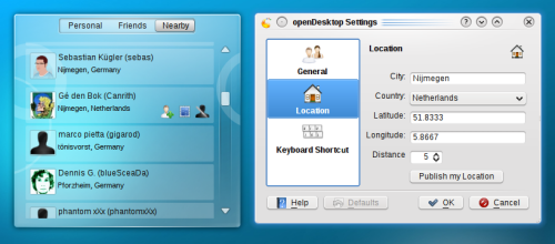 Screenshot of the Social Desktop Plasmoid